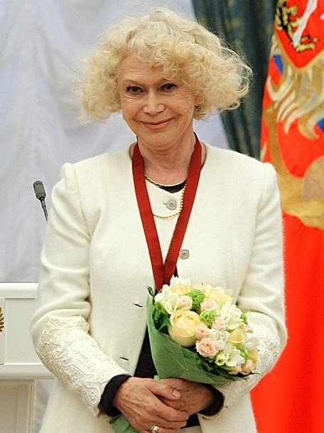 Svetlana Nemolyaeva 2012